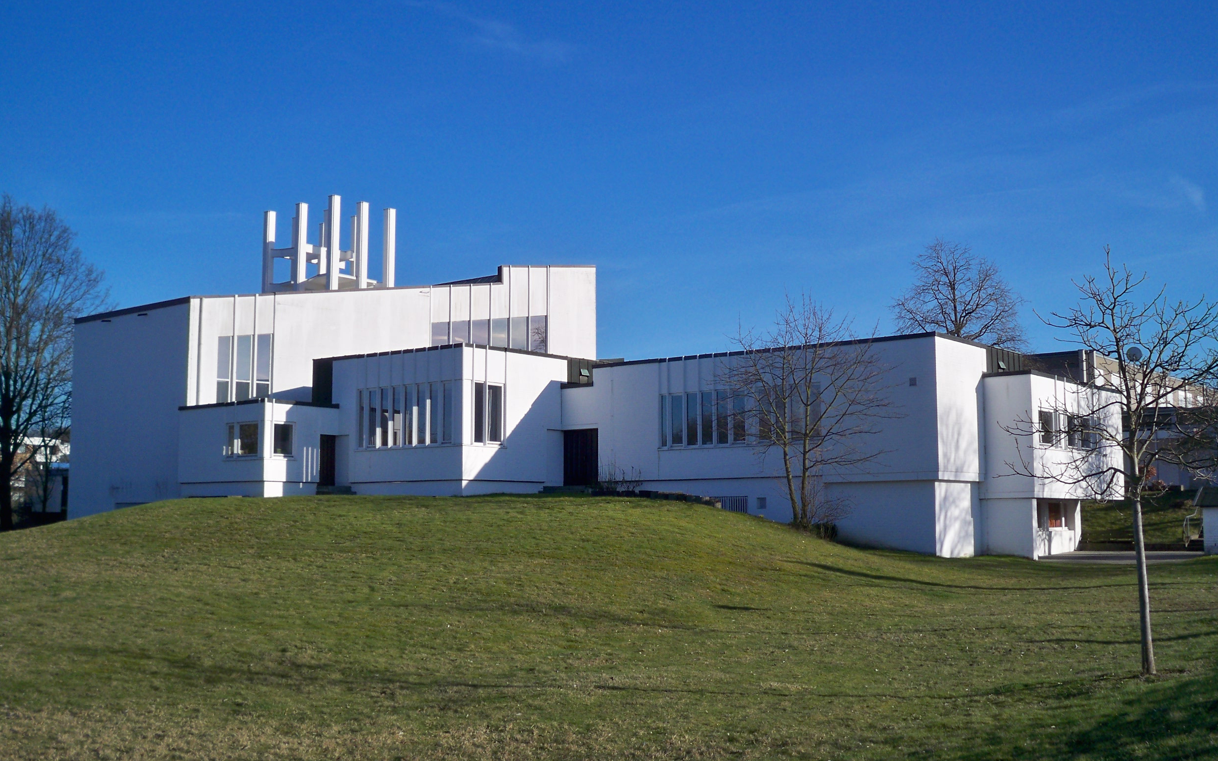 Wolfsburg-Detmerode, Lower Saxony, Stephanuskirche (to the left) with congregational house